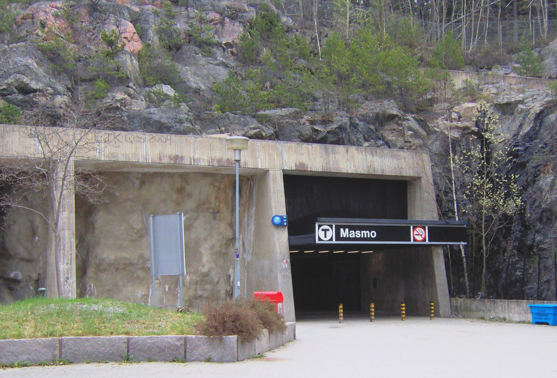 Masmo, UndergrounD in soutwest of Greater Stockholm.